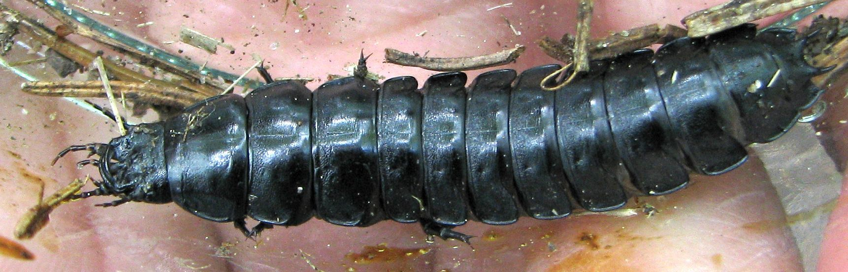 Fully grown larvae of Carabus nemoralis